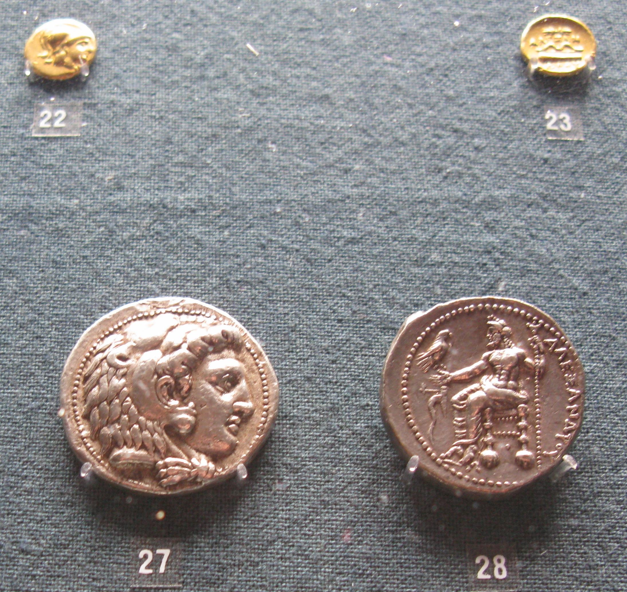 22. 23. 1/4 stater 27. 28. Tetradrachms. Numismatic Museum of Athens, Greece.